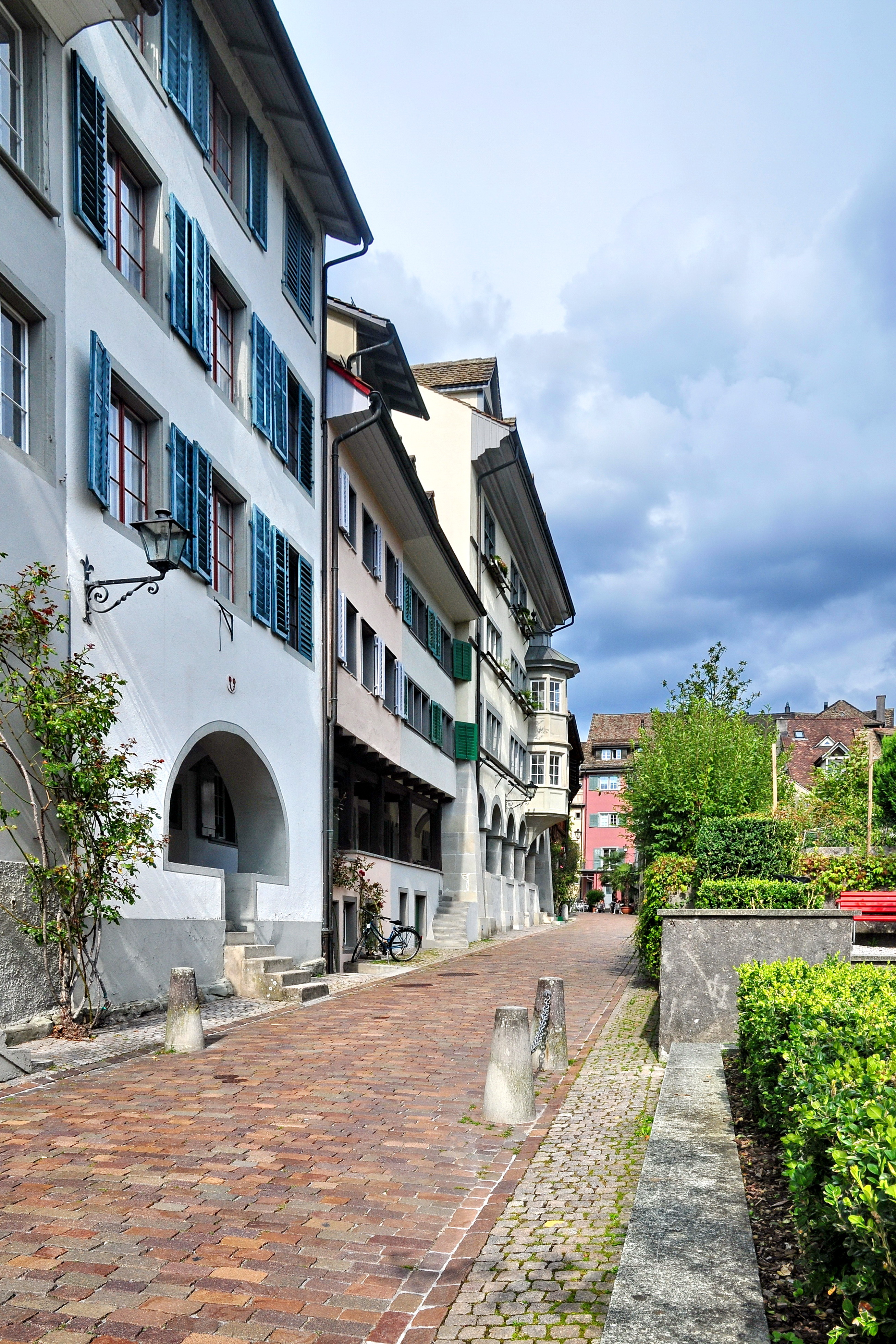 Hintergasse in Rapperswil (Switzerland)